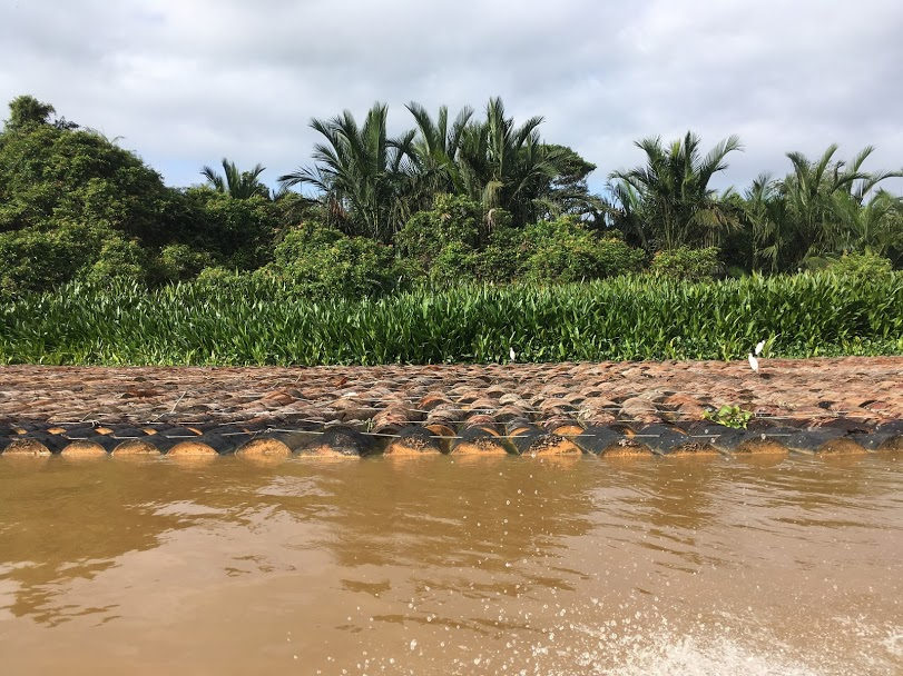 Sago logs prepared by the Melanaus in Sarawak, Malaysia